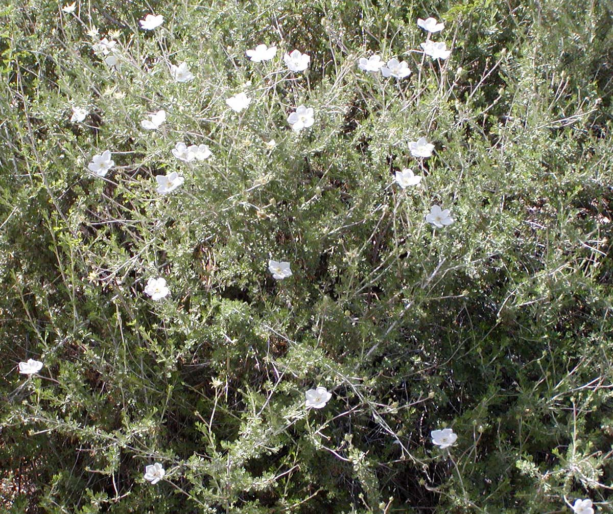 Photo of Fallugia paradoxa (Apache plume) form at the Desert Demonstration Garden in Las Vegas